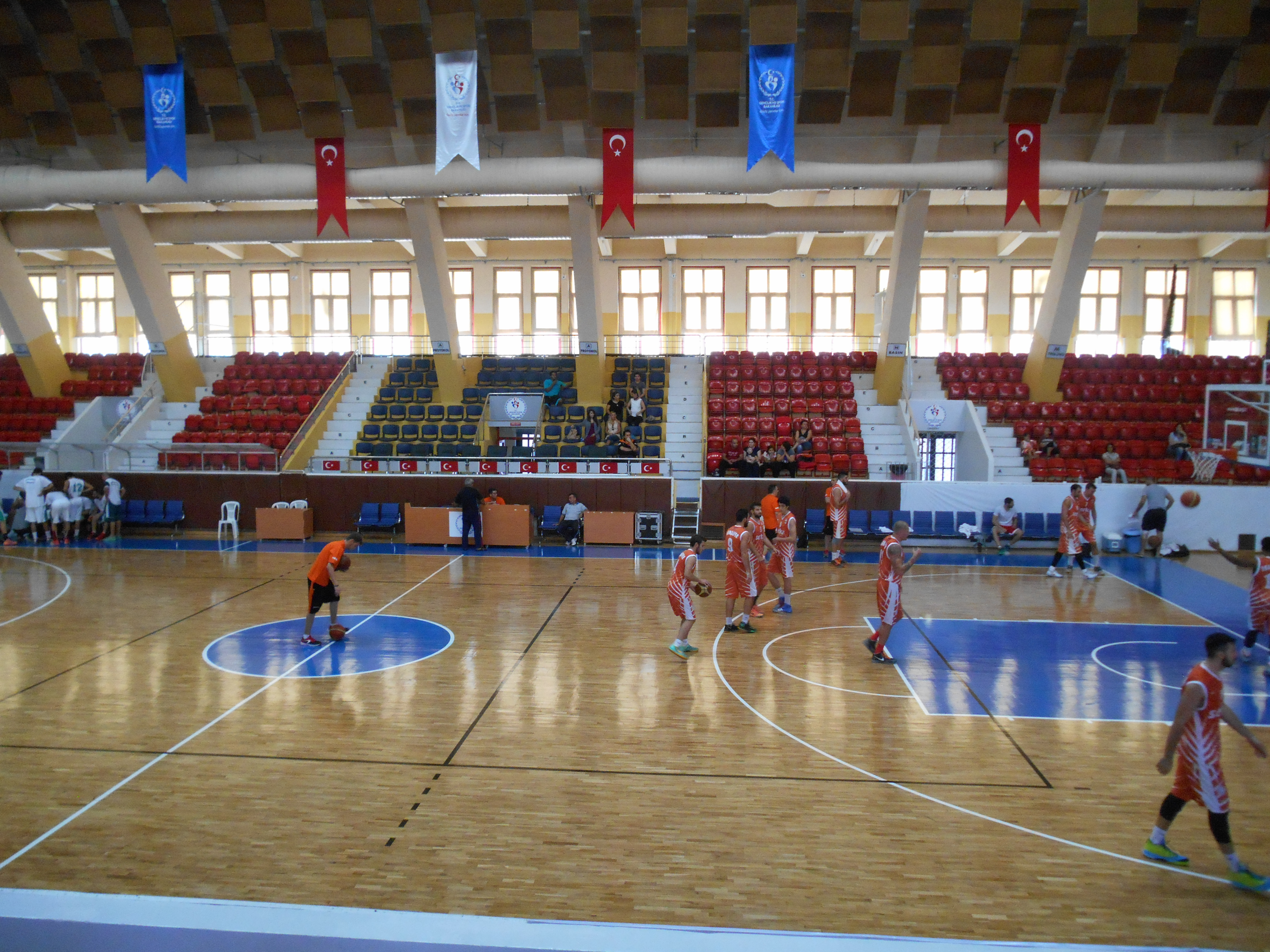 Spectator stands at the Menderes Sports Hall